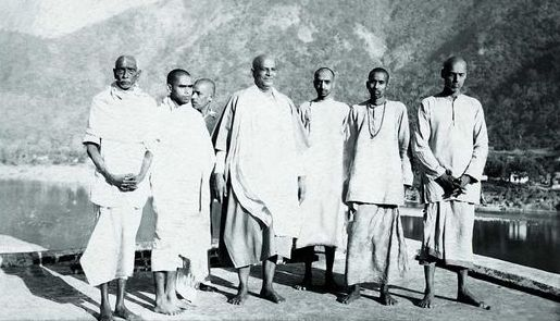 Swami Chinmayananda on his day of Sannyas initiation, with Guru Swami Sivananda and other disciples, Feb 25, 1949, Maha Shivratri Day